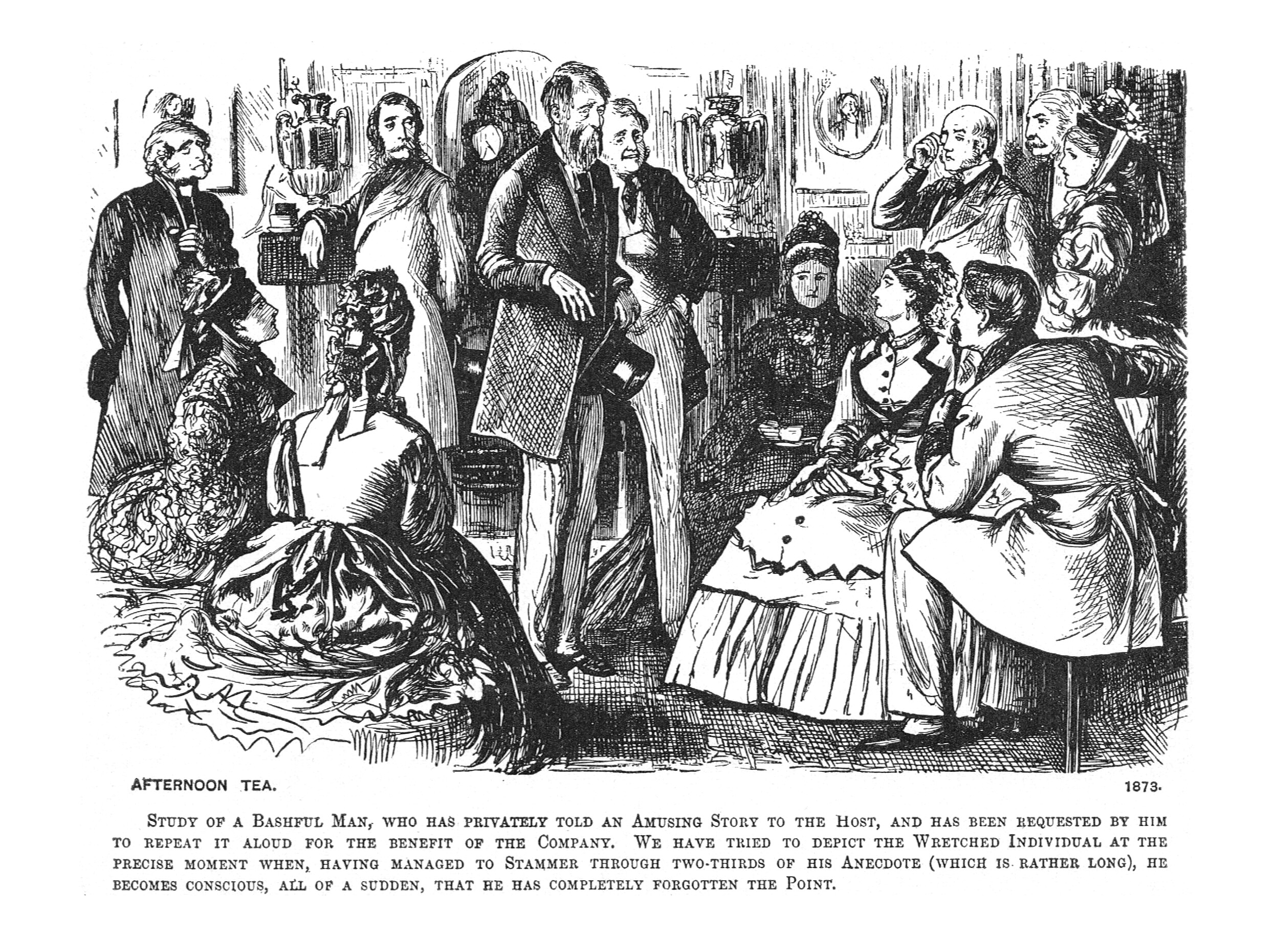 "Afternoon Tea." Image 1 of Society Pictures (1895) by George Du Maurier.